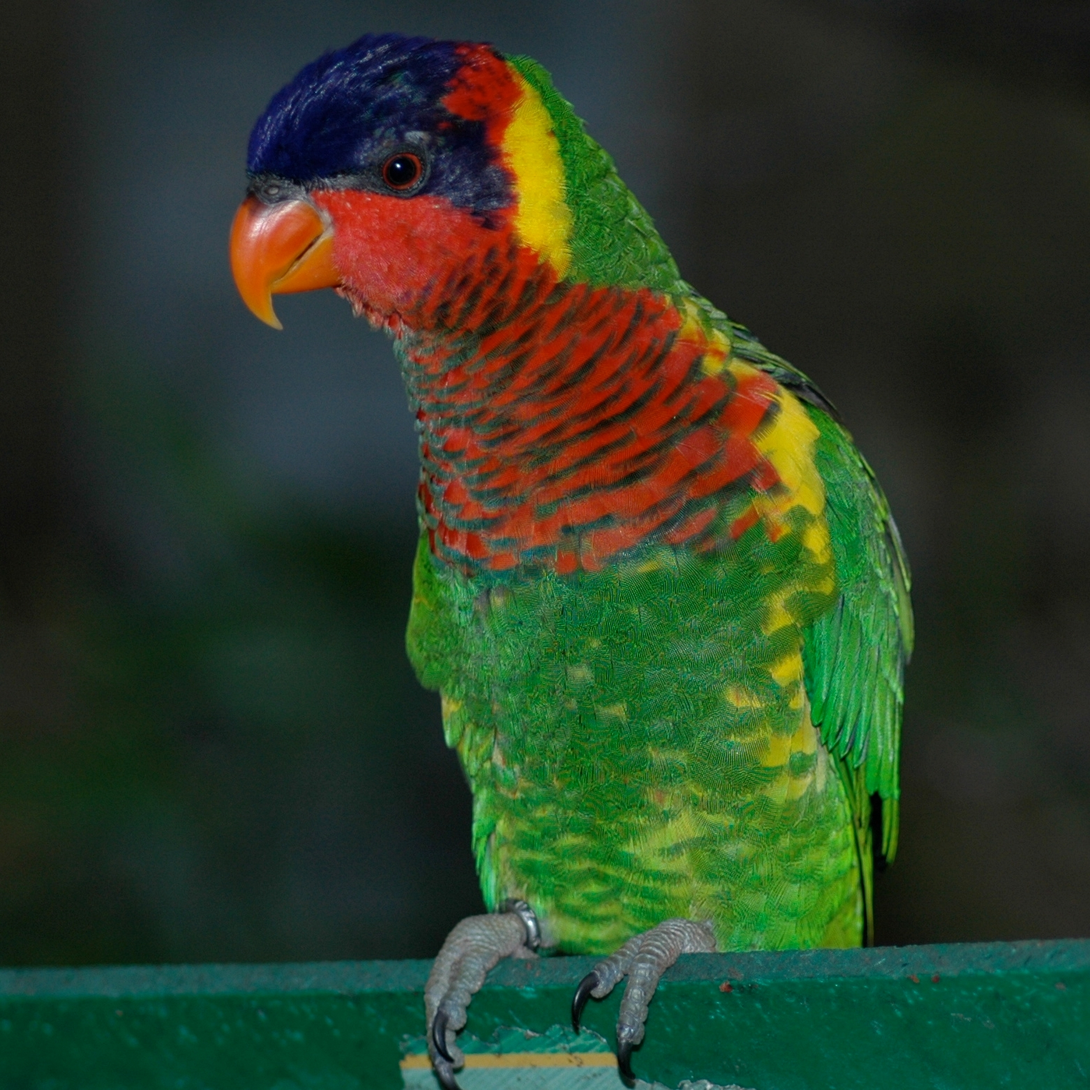 Ornate Lorikeet at San Antonio Zoo, Texas, USA.